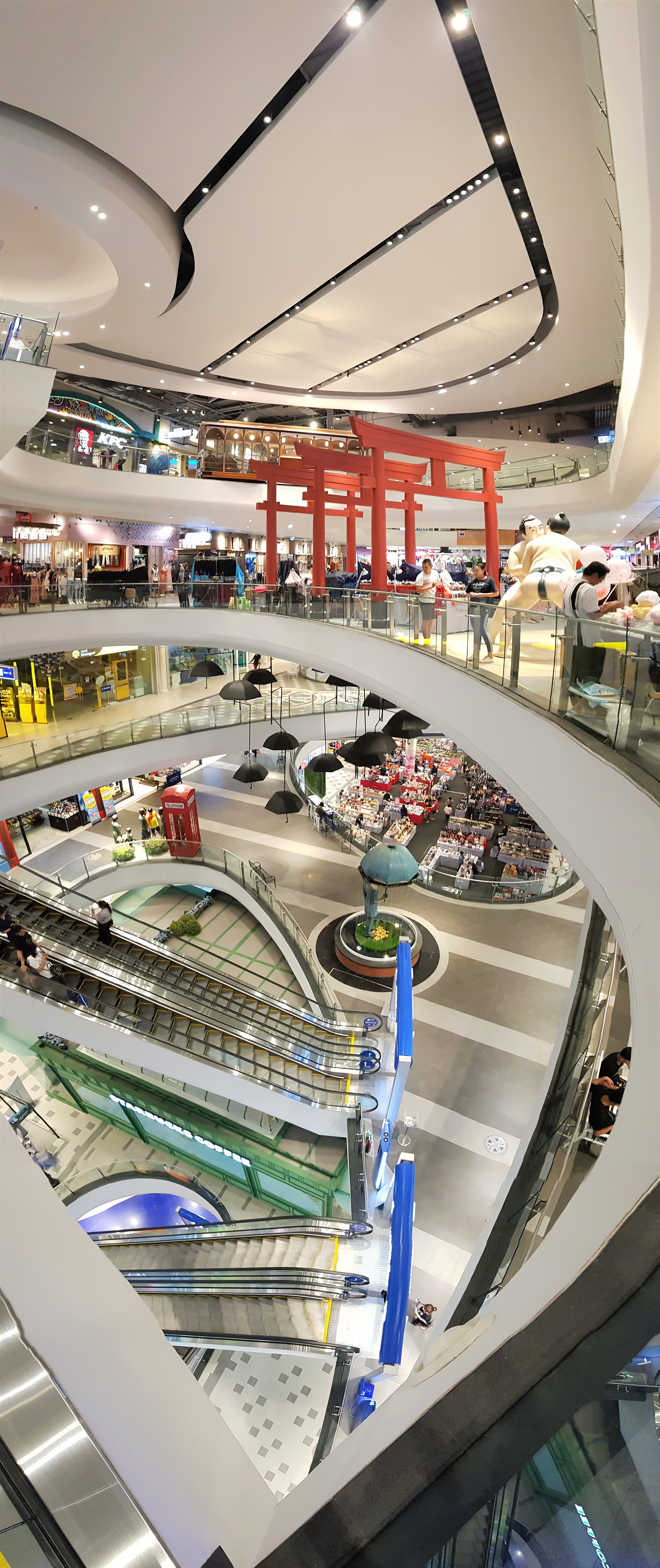 Terminal 21 Korat